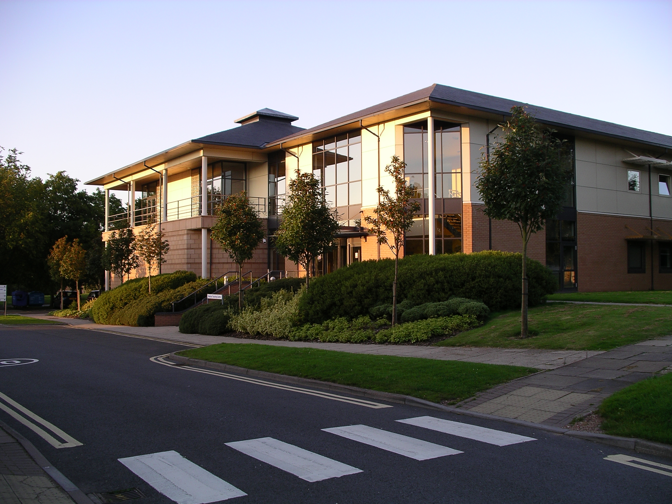 Photo of the Medical Teaching Centre at Warwick University, Coventry, England.